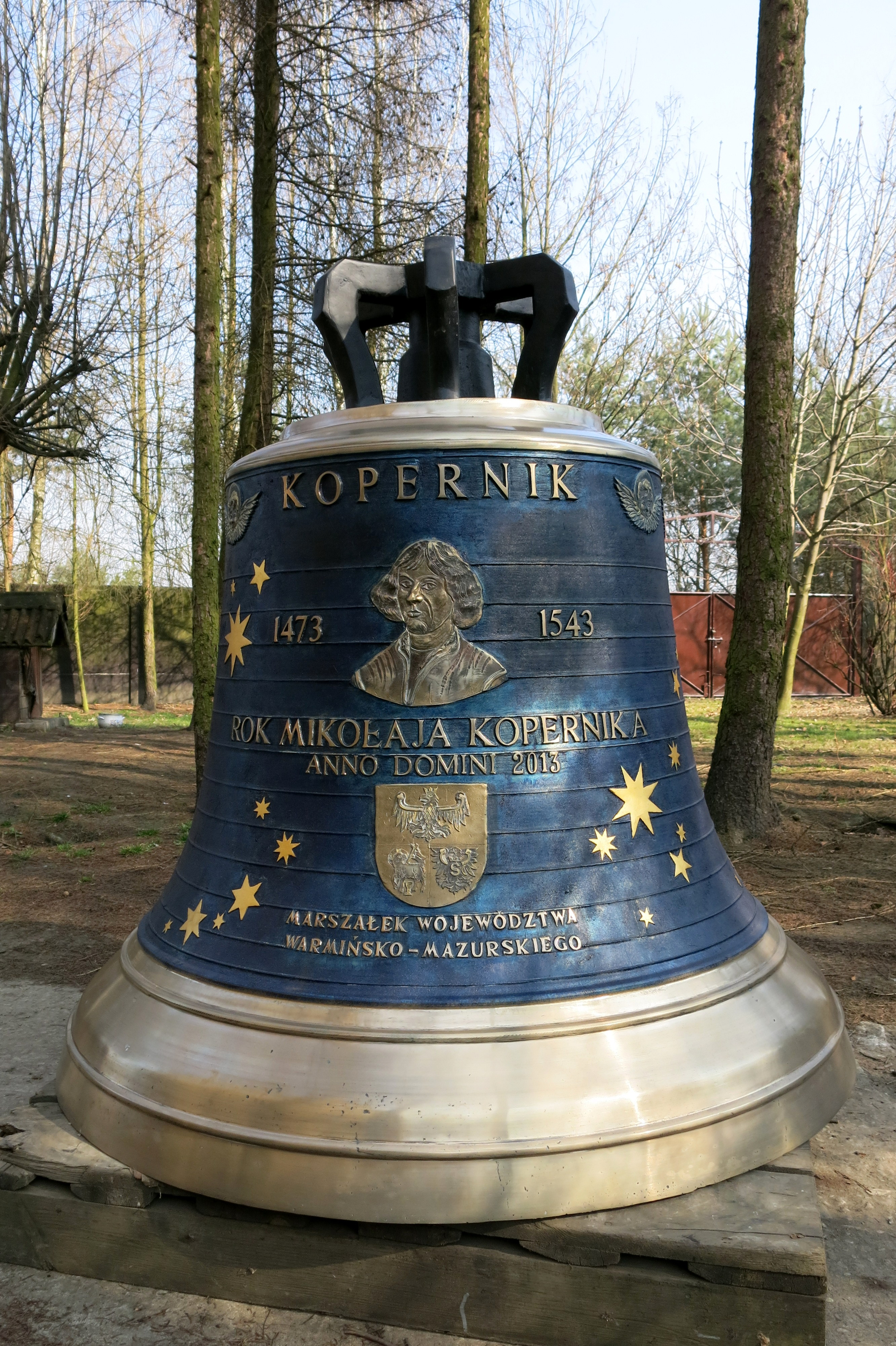 Bronze bell cast in Ludwisarnia Felczyńskich in Taciszów, Poland